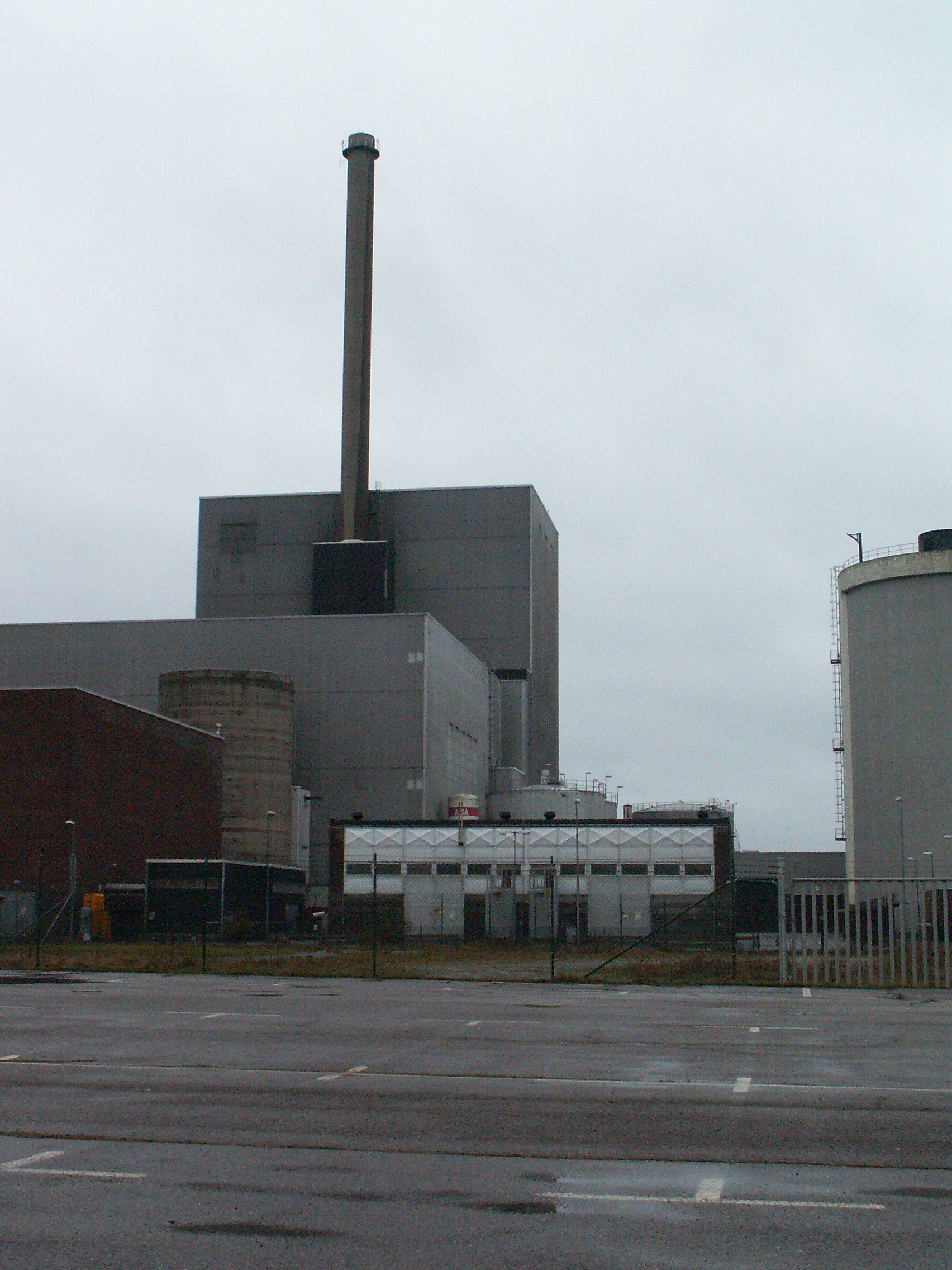 Barsebäcks nuclear plant.